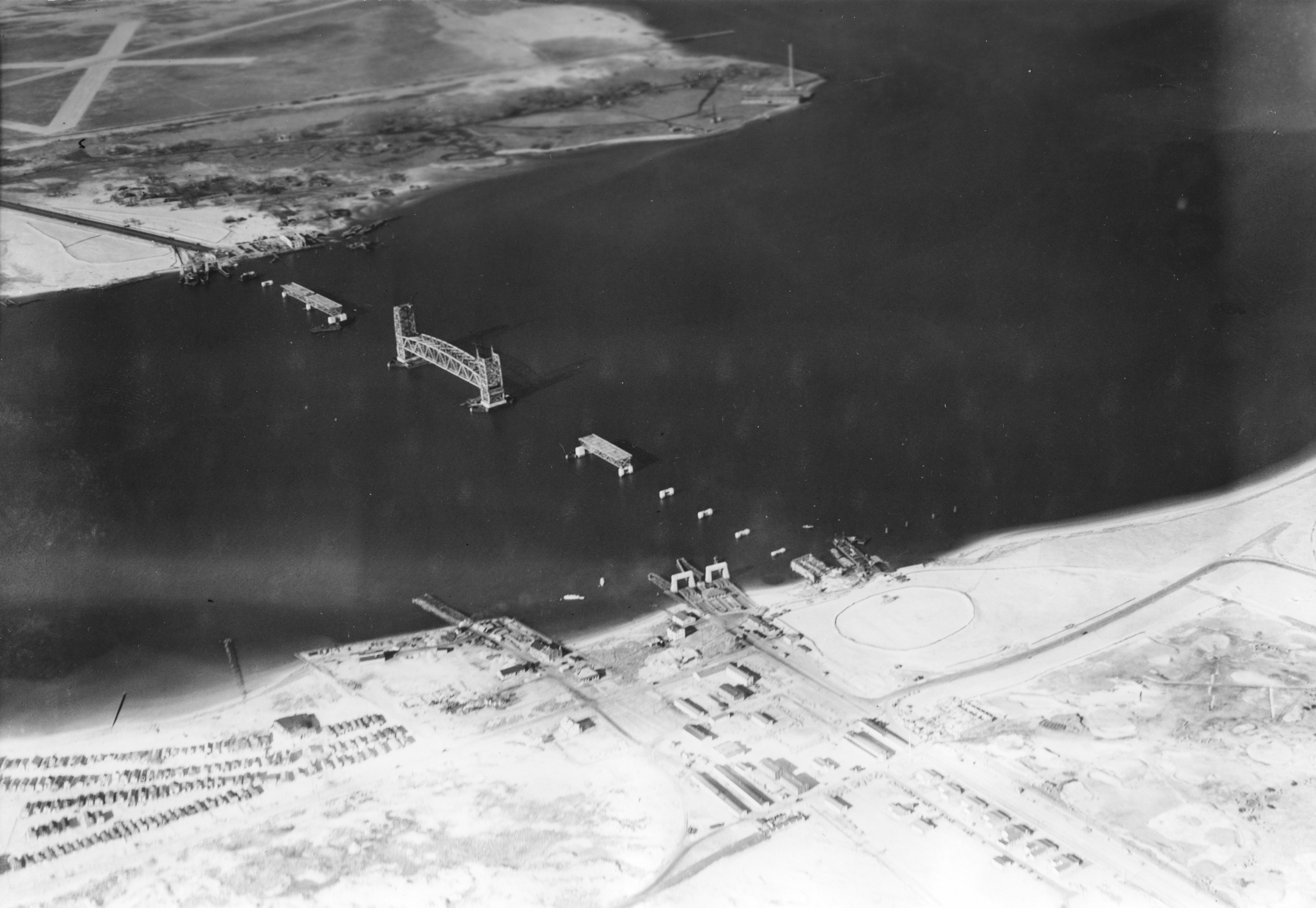 The Marine Parkway-Gil Hodges Memorial Bridge is celebrating its 75th anniversary on July 3, 2012. Aerial view of the bridge’s center span, now in place. Floyd Bennett Field is at the top of the photograph. Next to each end of the bridge are terminals for the municipal ferry that operated prior to the bridge’s opening. Photo dated 1937. Photo courtesy of Hardesty and Hanover.